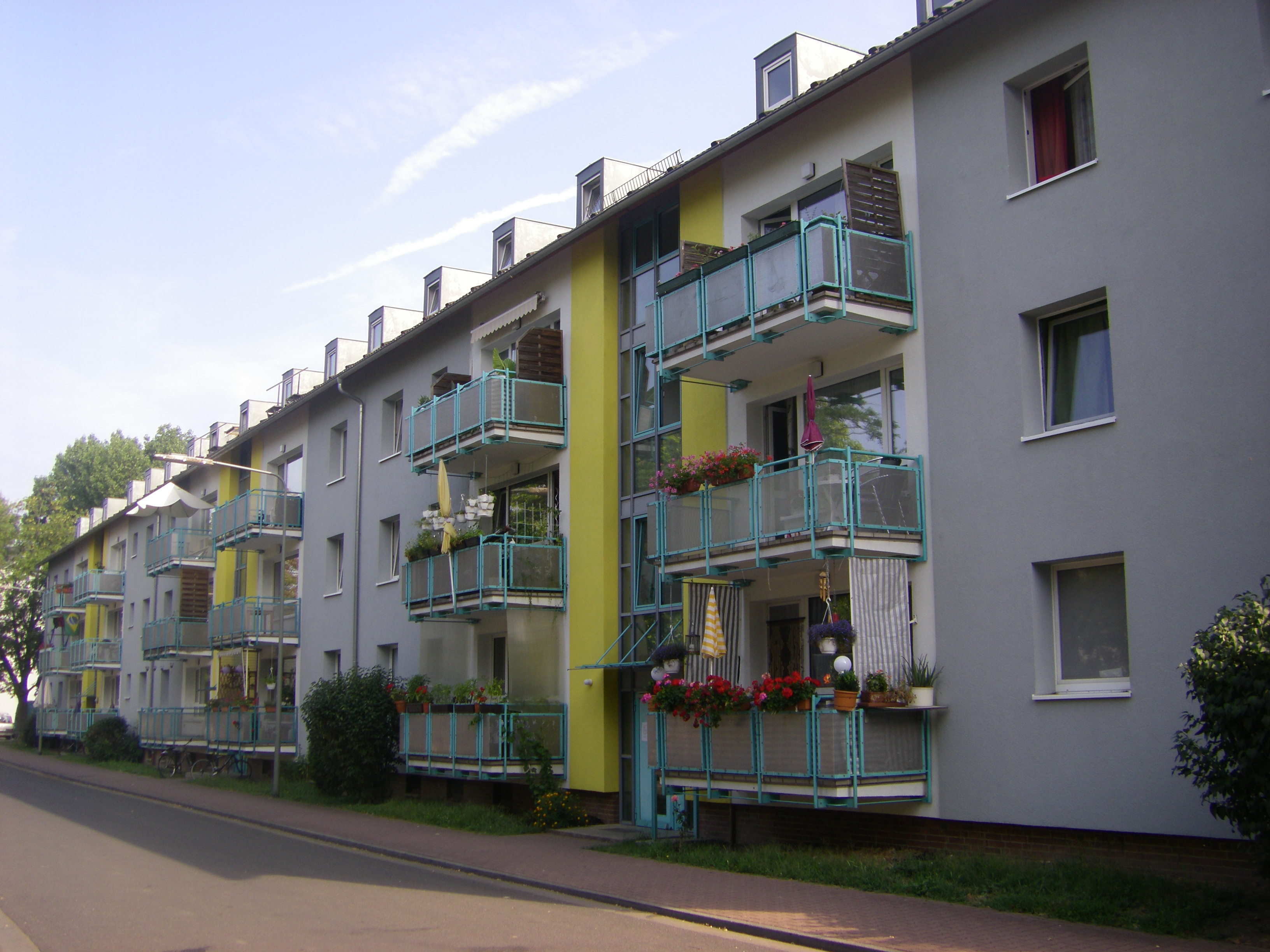 Typical building of the former American Housing Area in Platenstraße, Frankfurt, Germany